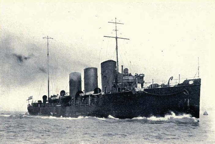 HMS Swift, early large destroyer.